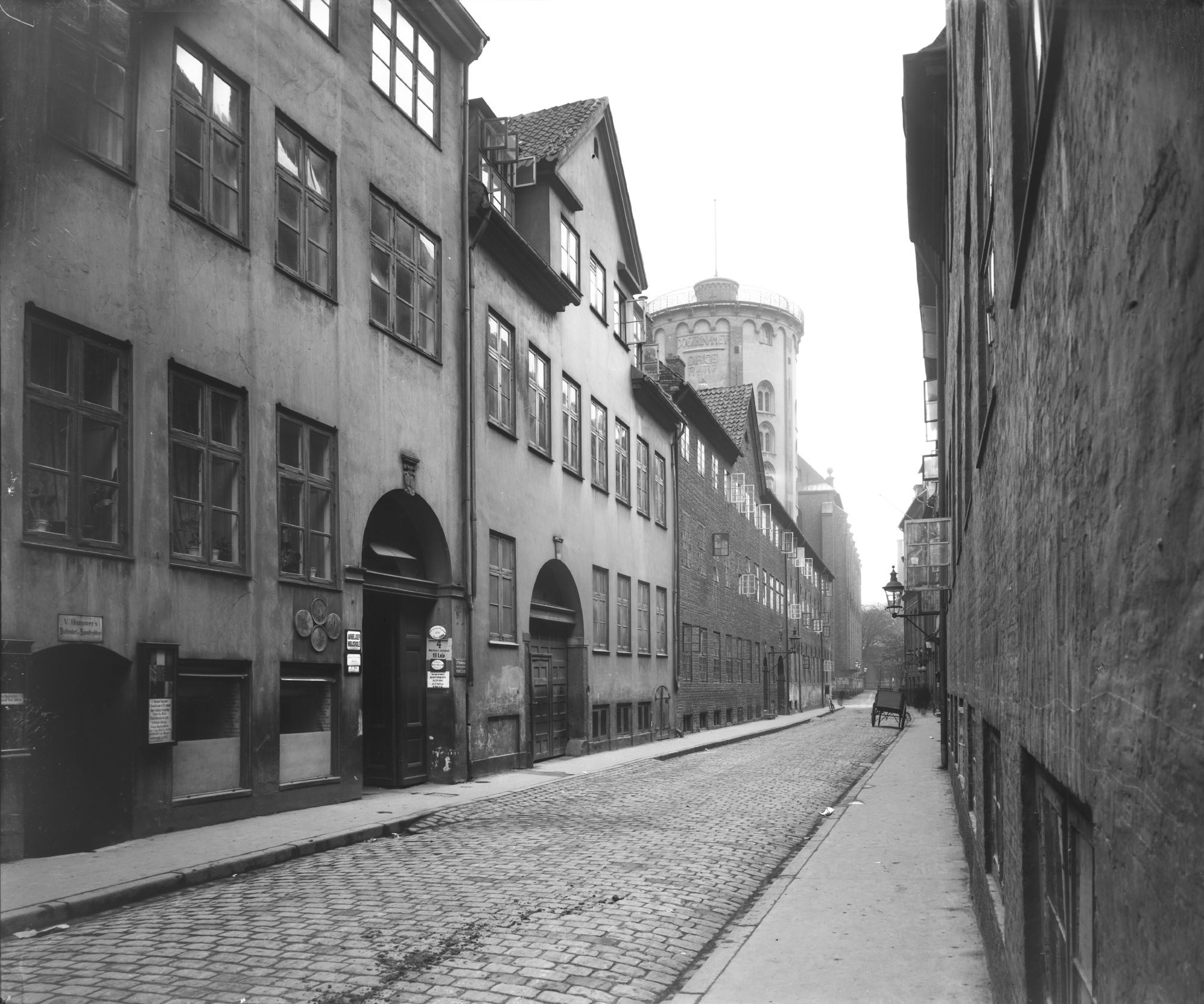 Store Kannikestræde in Copenhagen, Denmark